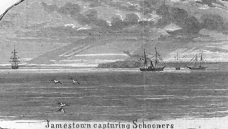 CSS Jamestown capturing merchant vessels in Hampton Roads, April 11, 1862 Originally published in Harper's Weekly in 1862 From the public domain U.S. Naval Historical Center.